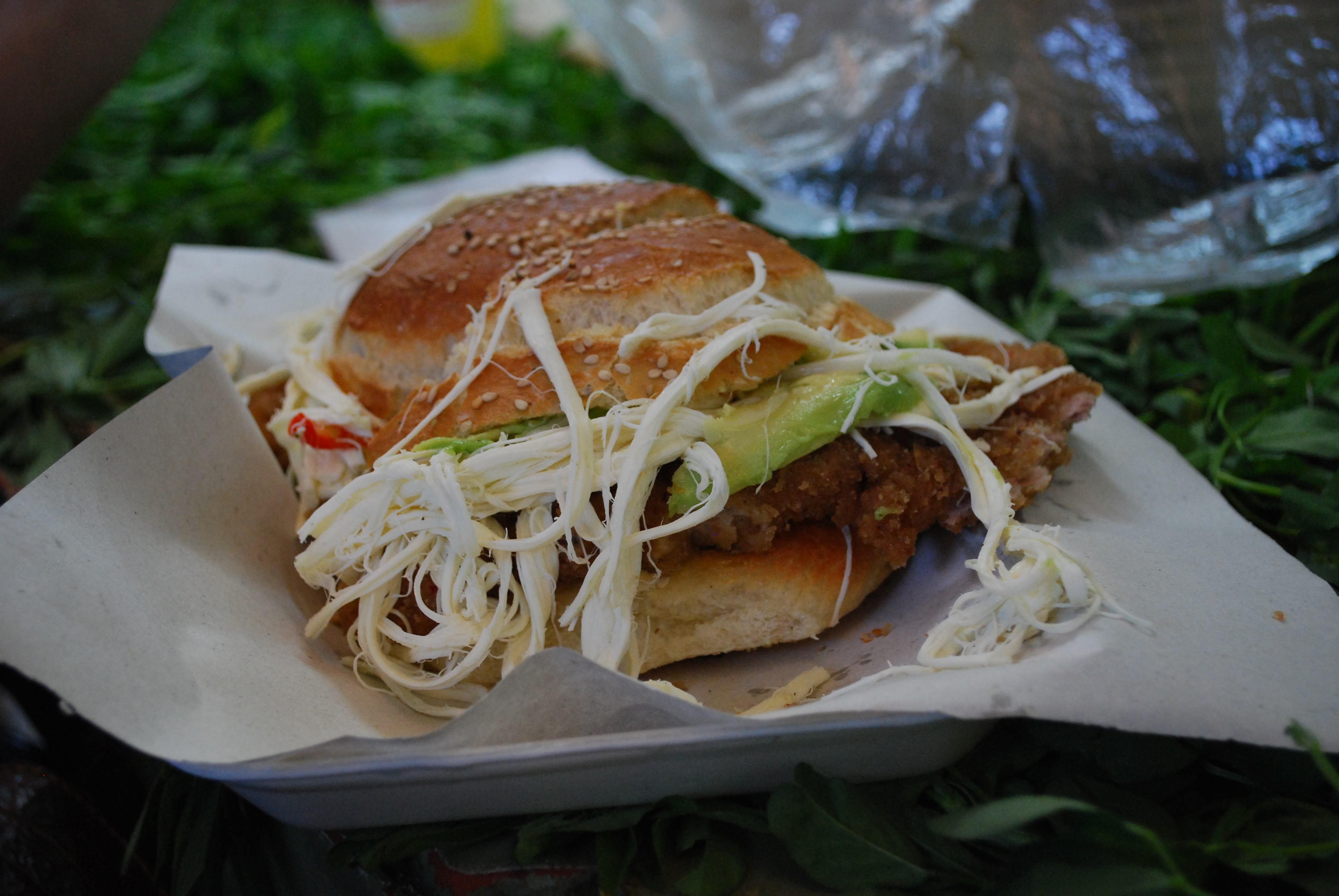 View of a cemita sandwich served at a food stand at the Cemita market in Puebla, Mexico